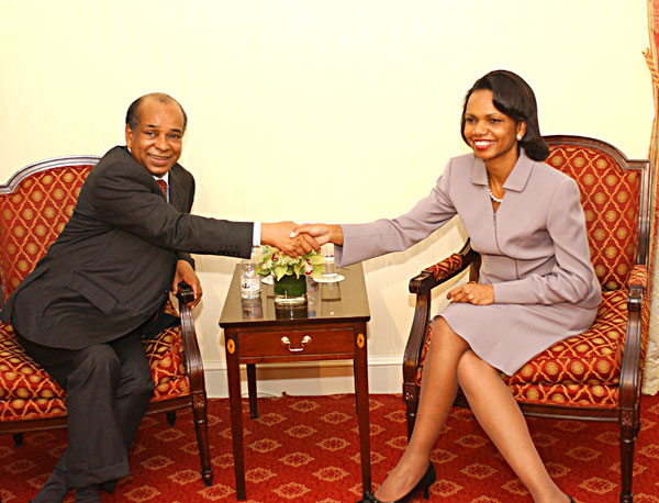 Secretary Rice with Libyan Foreign Minister Abd al-Rahman Shalgam in New York.